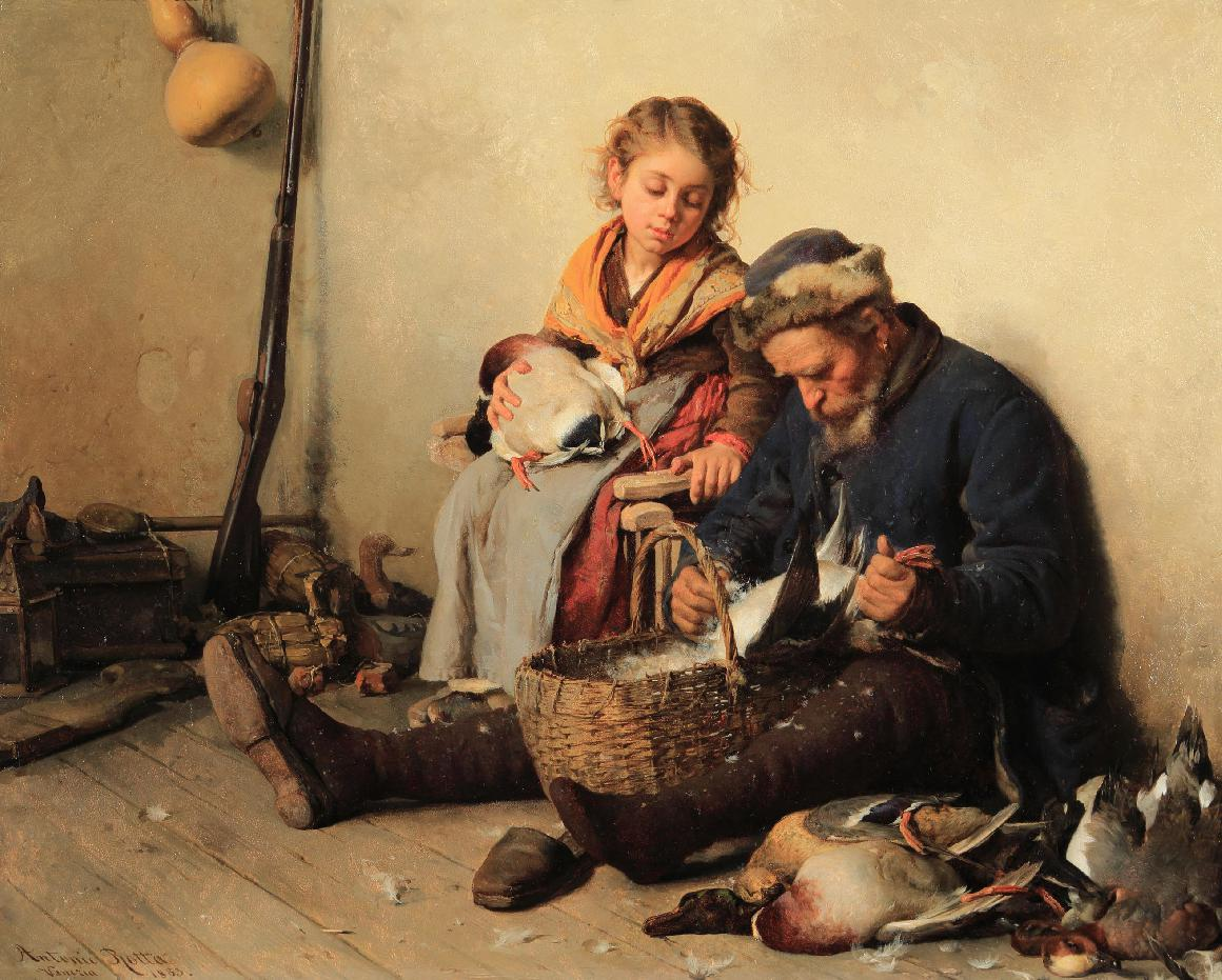 Antonio Rotta, The plucking of ducks, Venice, 1883